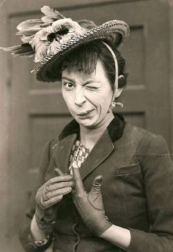 Gale Henry actress poses for a picture published in the Motion Picture News in 1919